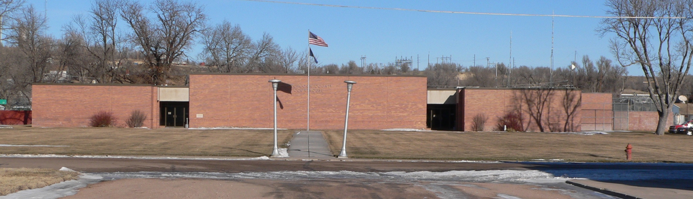 Hitchcock County courthouse in Trenton, Nebraska; seen from the south. The building was constructed in 1969.